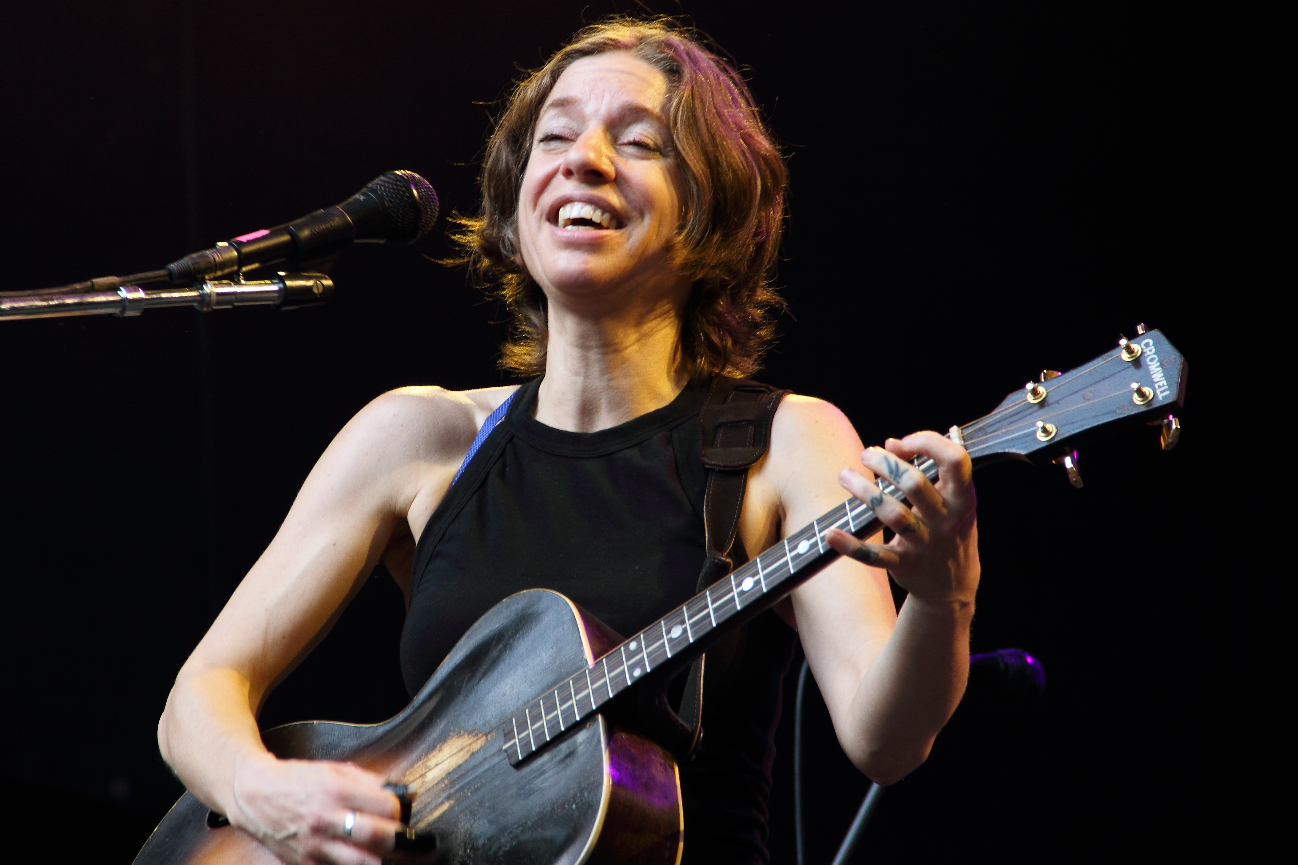 Ani DiFranco at Rudolstadt-Festival 2017.